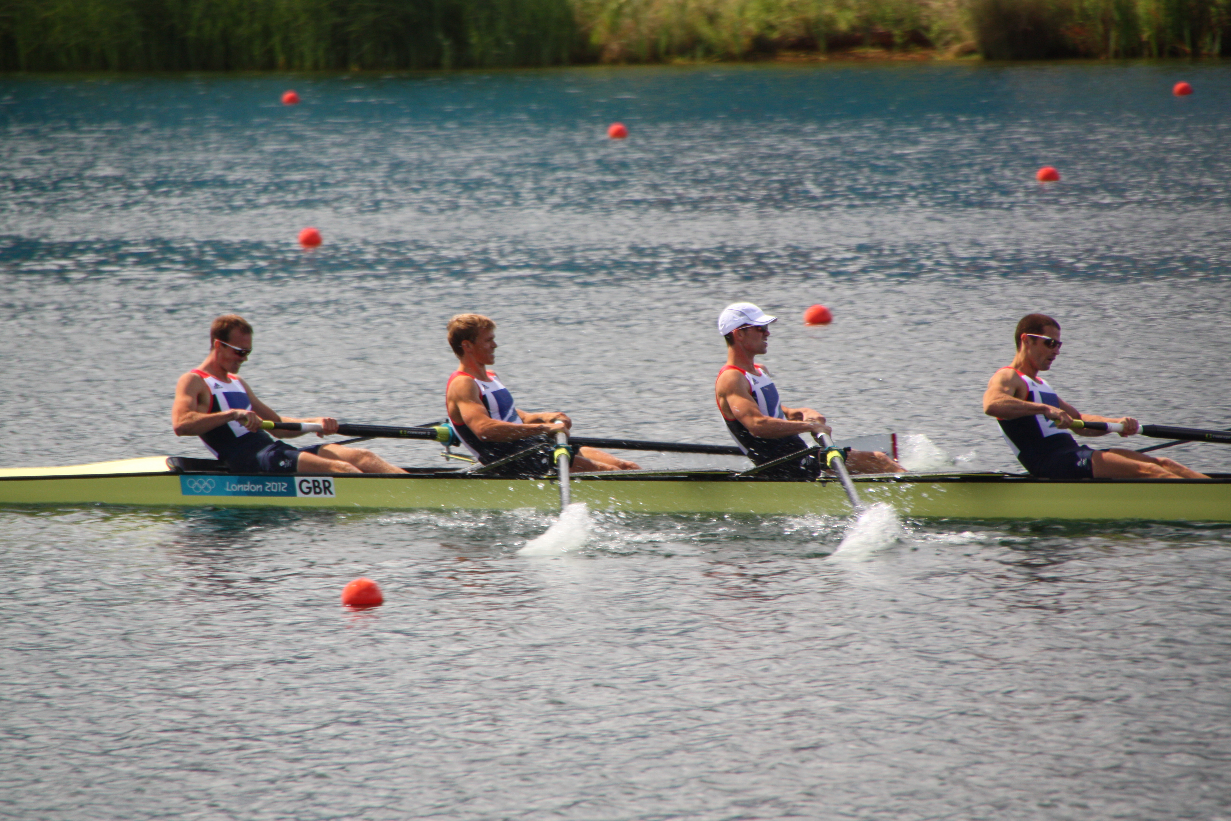 Rowing at the 2012 Summer Olympics - Men's lightweight coxless four - Great Britain (Peter Chambers, Rob Williams, Richard Chambers, Chris Bartley) at finish of heat 2